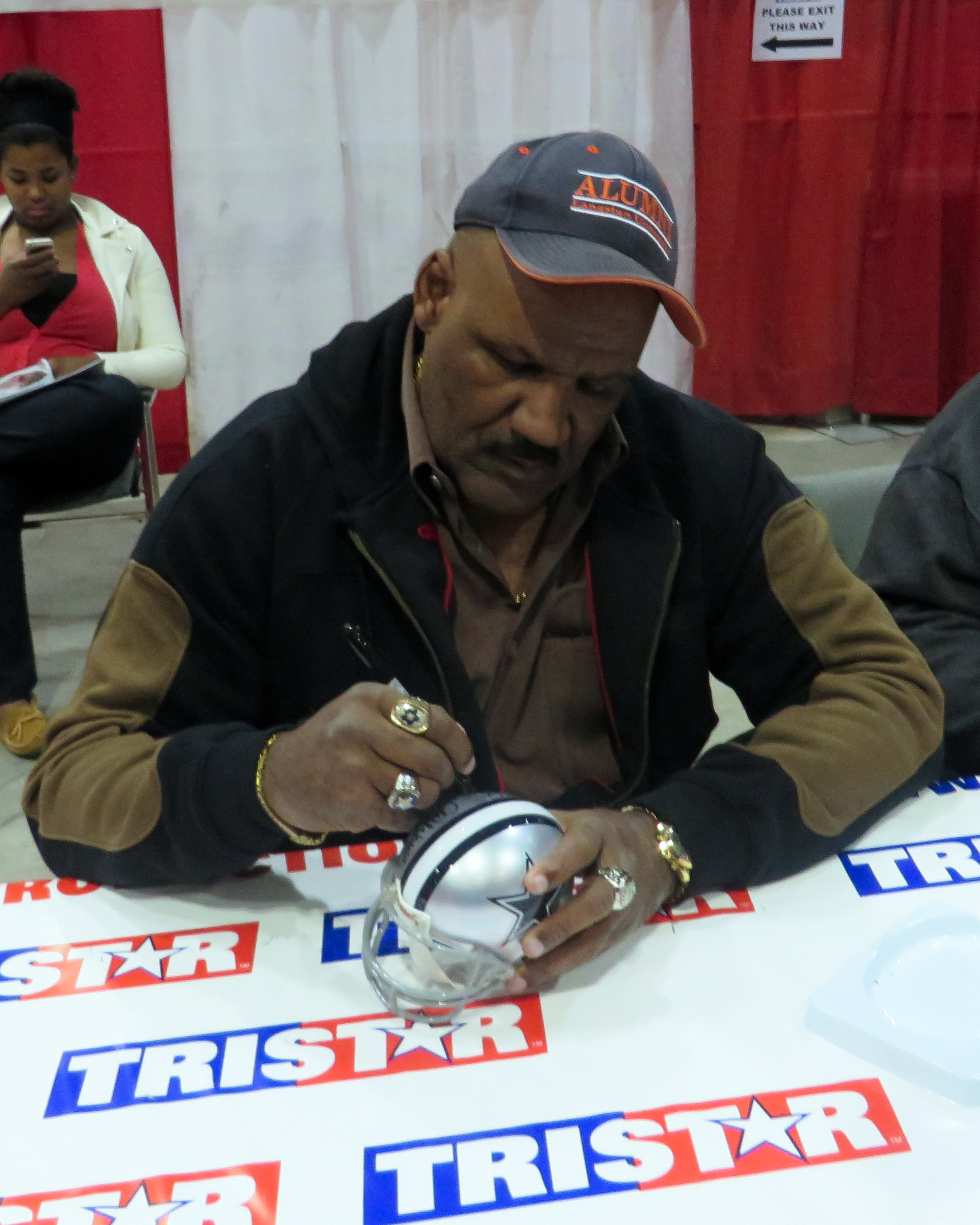 Thomas "Hollywood" Henderson signs autographs at a Houston sports collectors show in January 2014.